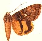 PLATE CCI.